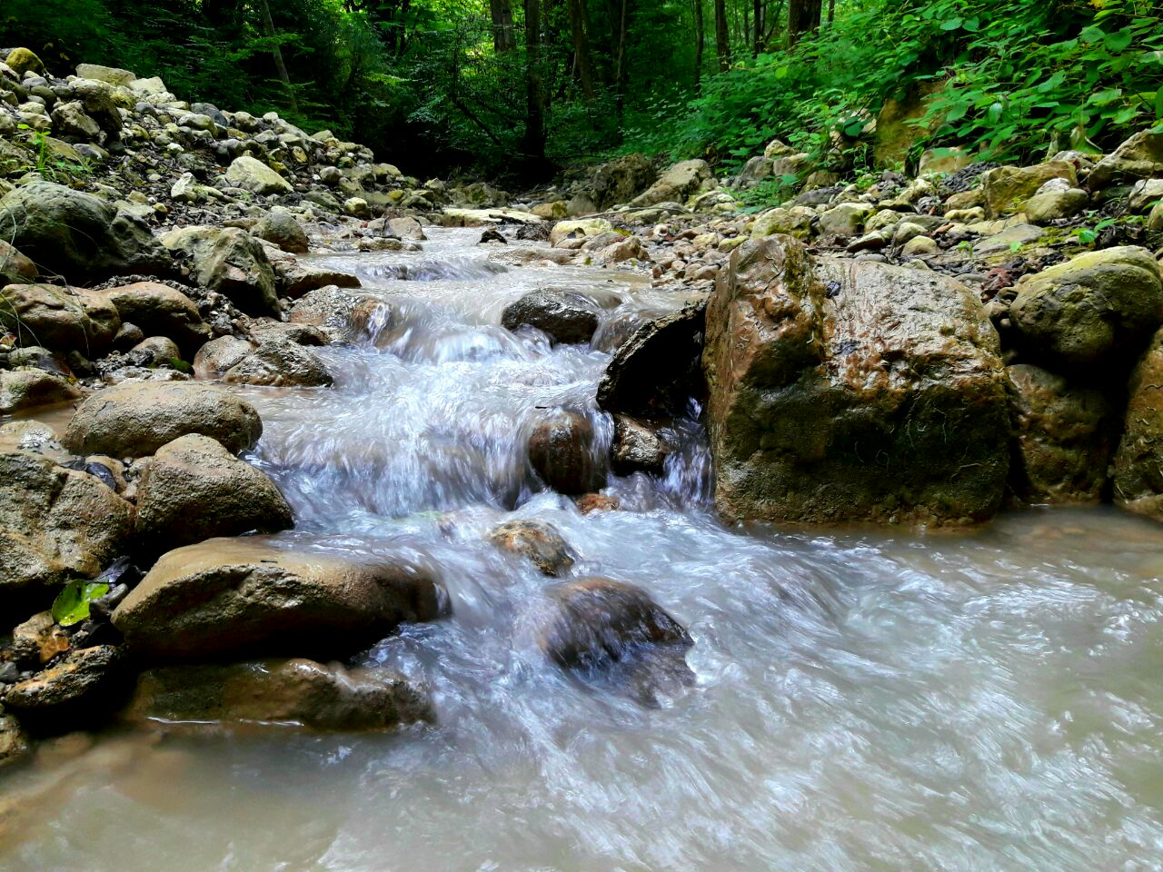 رودخانه در دل جنگل